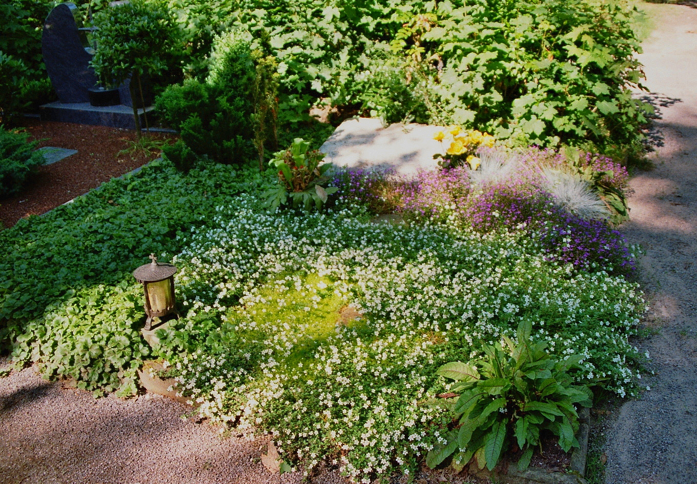 Massing family grave in the Central Cemetery (Zentralfriedhof) in Ibbenbüren, Kreis Steinfurt, North Rhine-Westphalia, Germany.